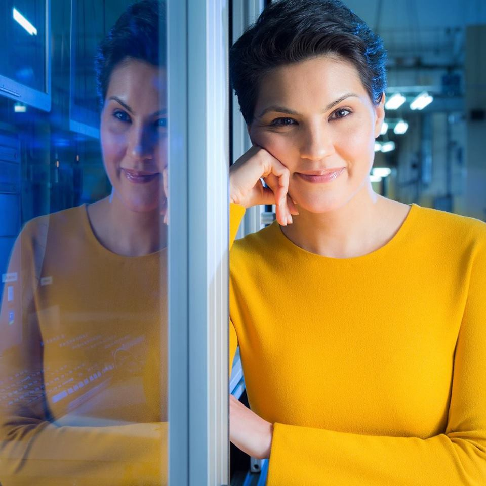 Business owner & author Nadya Zhexembayeva